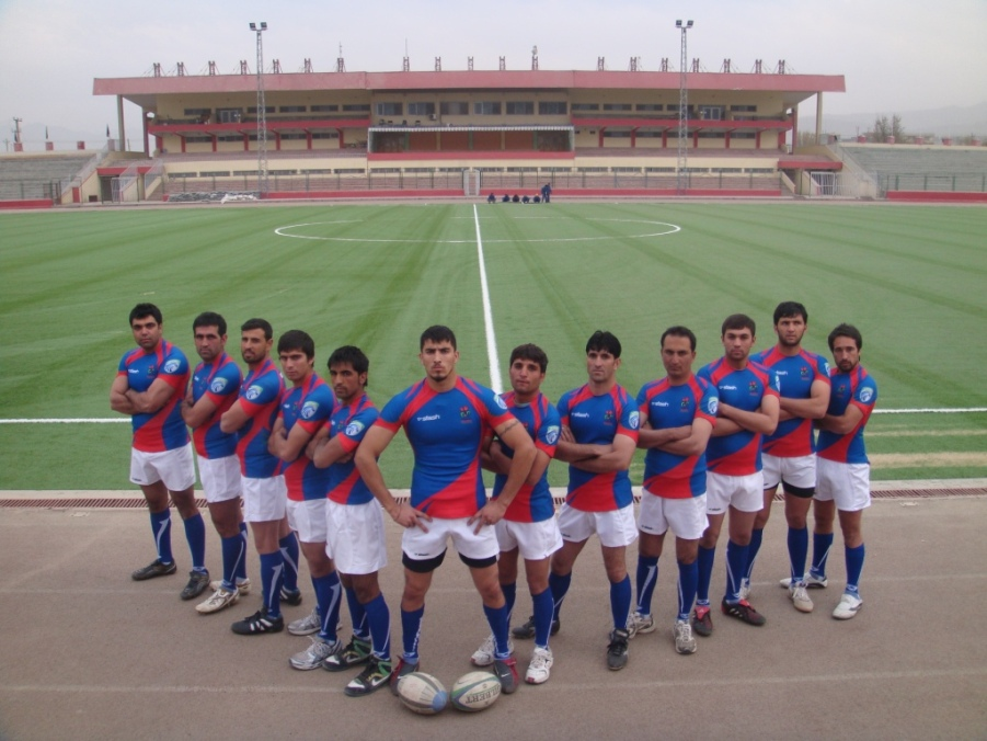 Afghan Rugby Squad